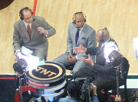 before the May 26, 2011 NBA Eastern Conference finals game with Miami Heat and Chicago Bulls. Chicago Bulls players are warming up, an inflatable version of mascot Benny the Bull is hoisted, and NBA on TNT hosts are broadcasting (bottom left corner; L-R: Ernie Johnson, Kenny Smith, Charles Barkley (?))